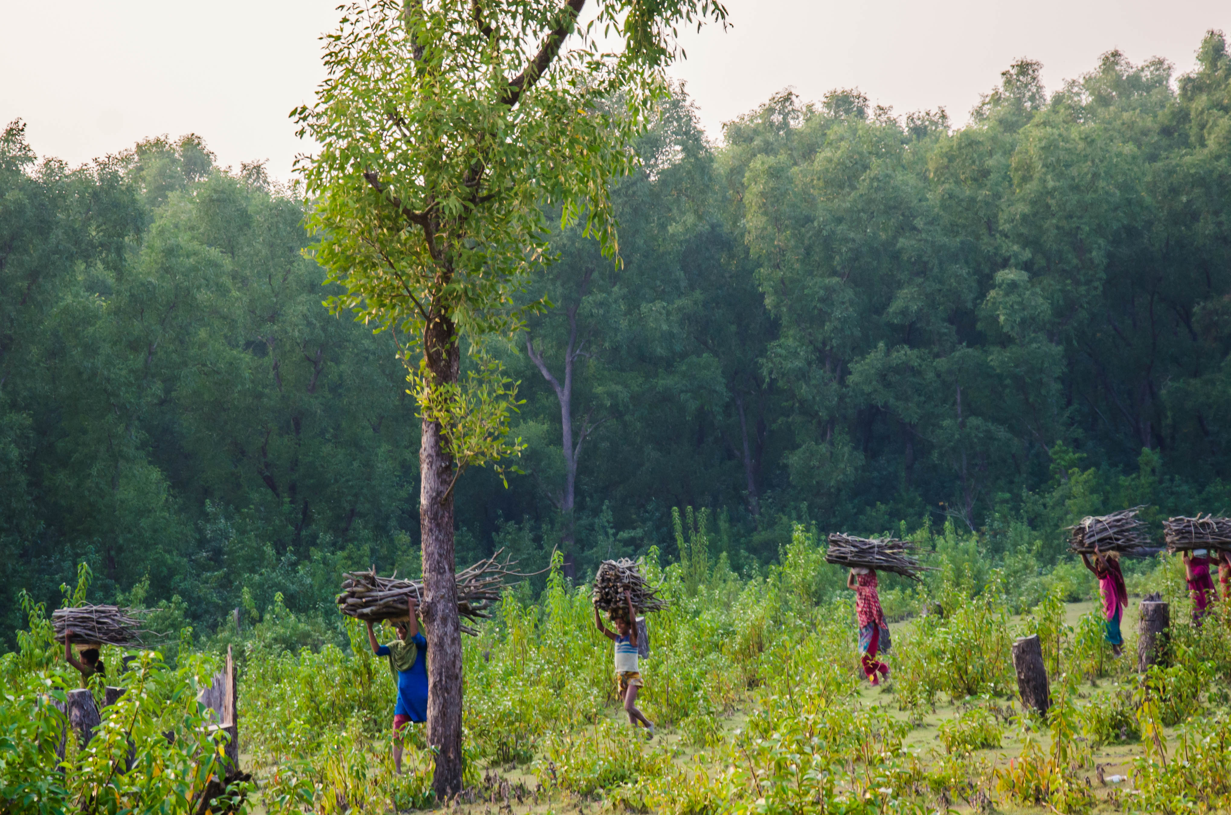 Nijhum Dwip, a small island under Hatiya upazila, Bangladesh.